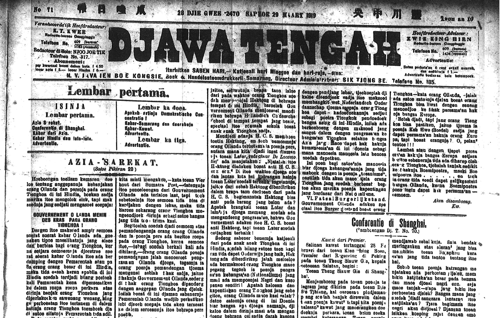 This is a scanned microfilm image of the front page an issue of Djawa Tengah, a newspaper from Semarang, Dutch East Indies, from March 29, 1919.